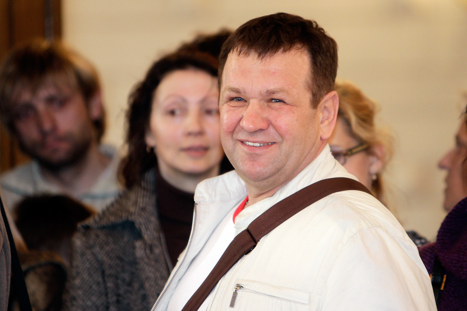 Businessman Kęstutis Pukas